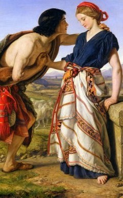 Jacob meets Rachael at the well